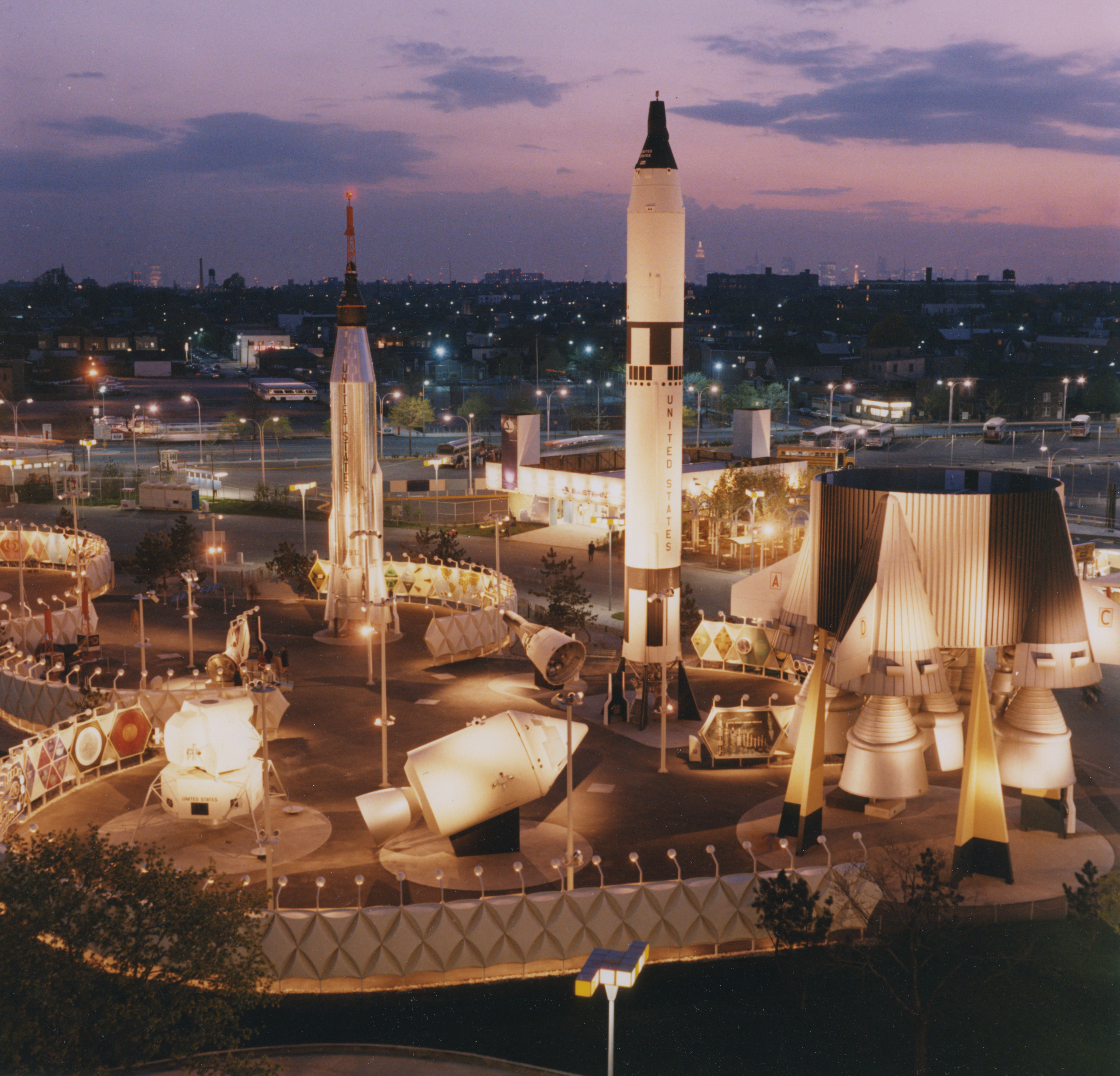 This is the document with local identifier 255-CC-65-HC-223. It was scanned by a Wikimedian at the National Archives ExtravaSCANza. Scanned photo (front): Space Park at 1964 World's Fair, New York